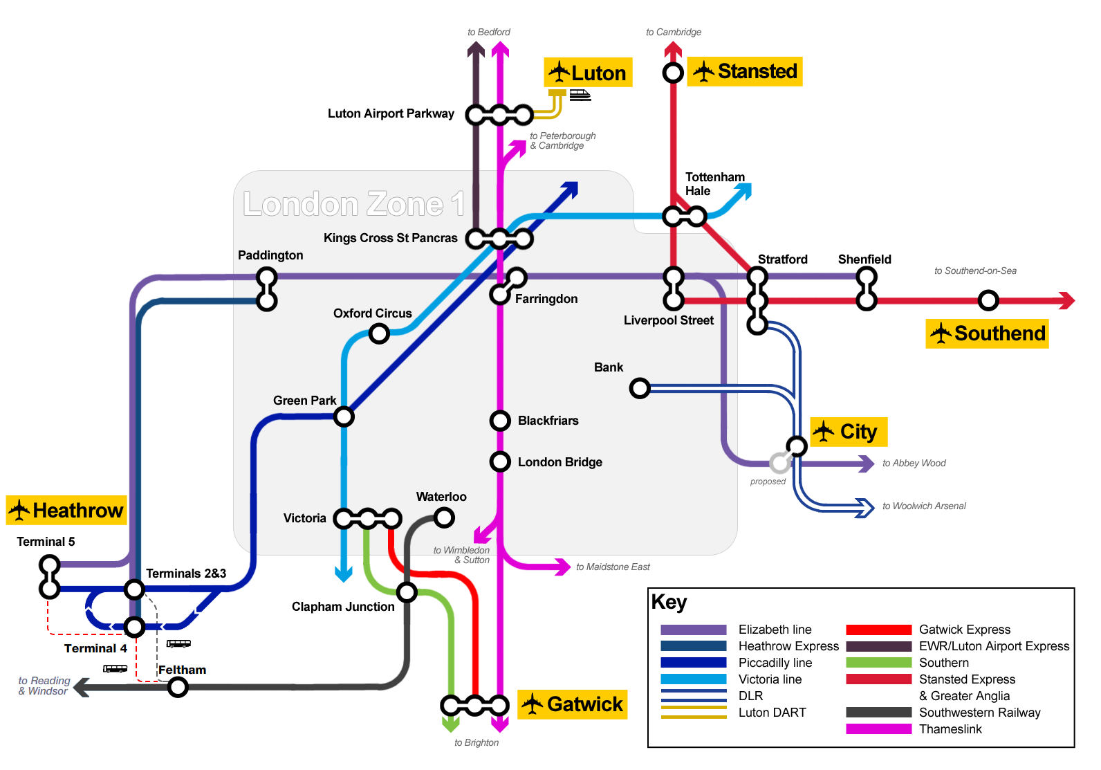 Diagrammatic map of the principal National Rail and London Underground lines which serve the airports around London.